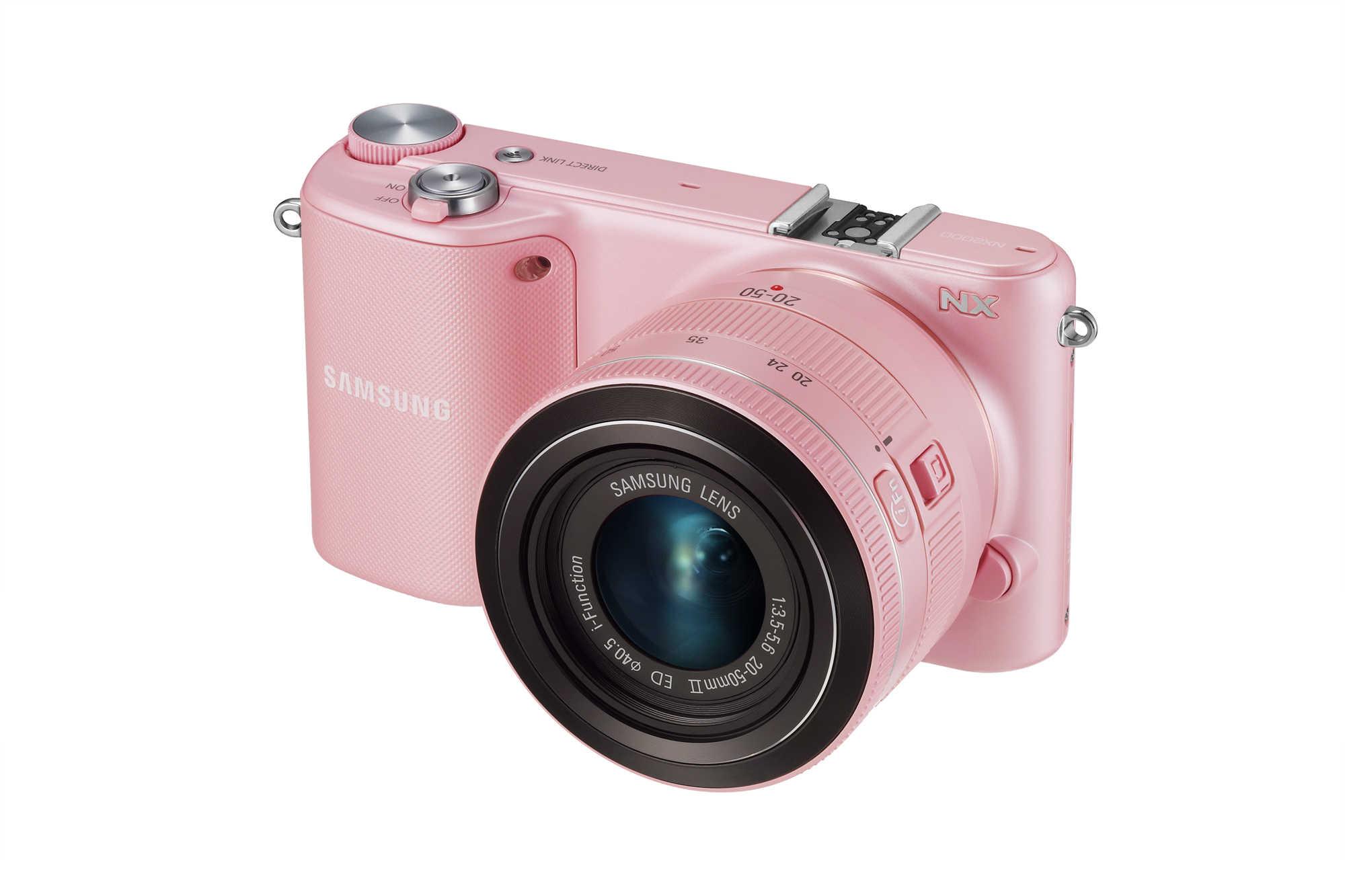 Samsung NX2000 (pink)